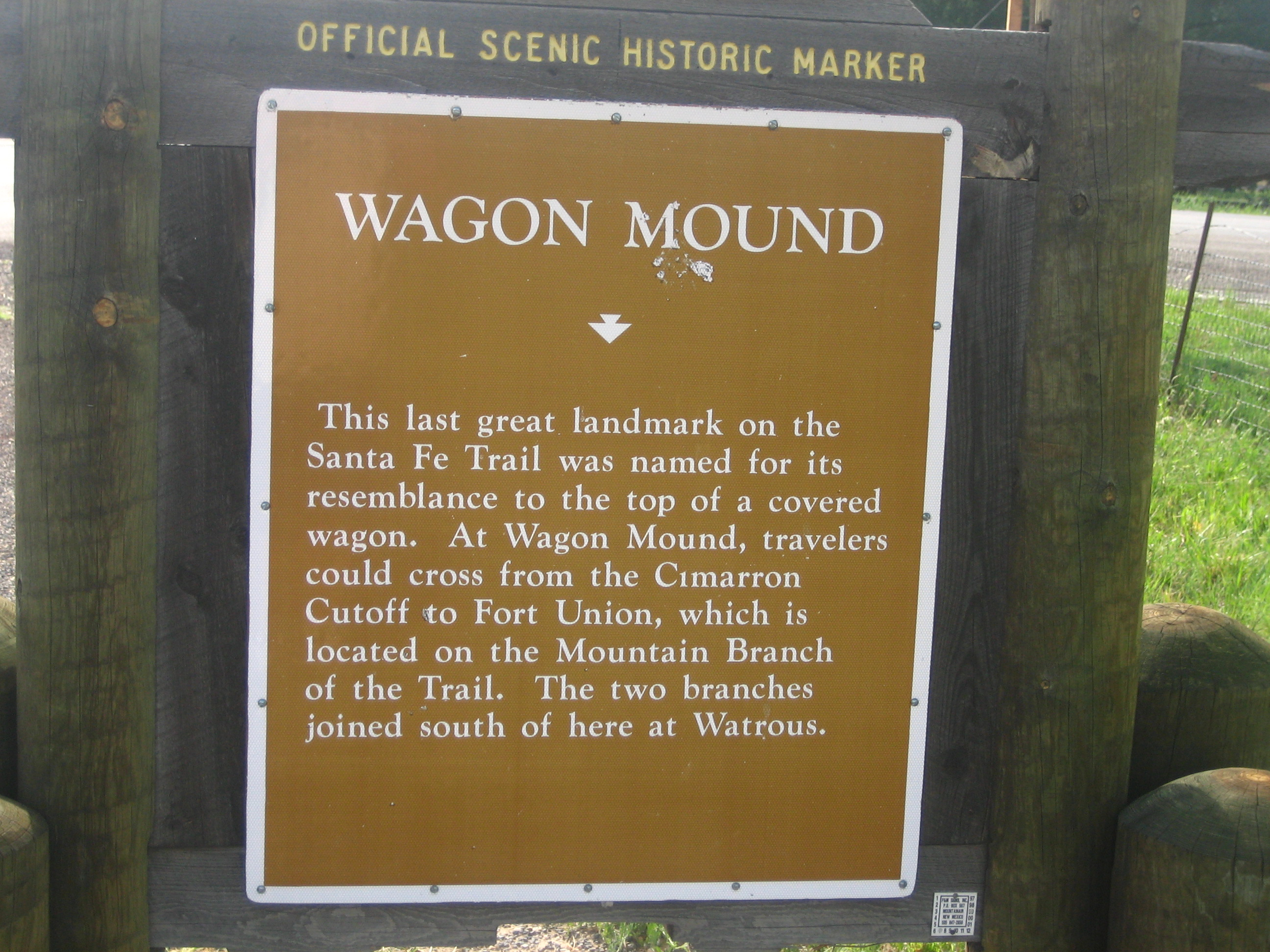 I took photo in July 2008.Billy Hathorn (talk) 04:35, 5 July 2009 (UTC)